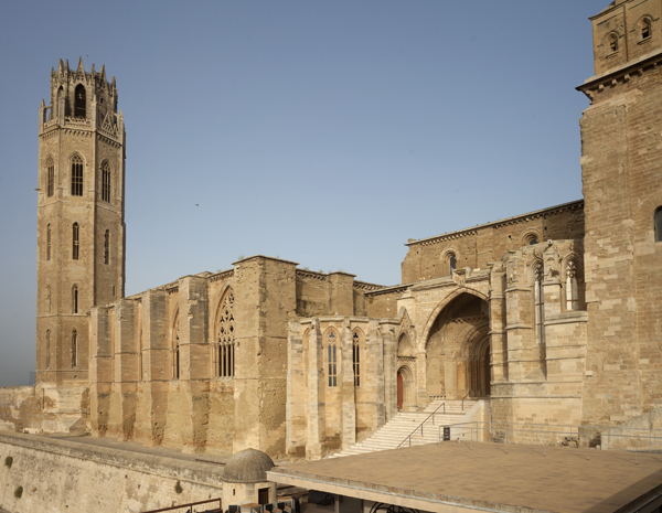 La Seu Vella; Lleida, Catalunya, Lleida, Spain; façana sud; Ref: PM_095353_E_Lleida; ; Photographer: Paul M.R. Maeyaert; © Paul M.R. Maeyaert; ; Cultural heritage; Cultural heritage/Cathedral; Cultural heritage/Romanesque; Cultural heritage/Romanesque Catalonia; Europeana; Europe/Spain/Lleida